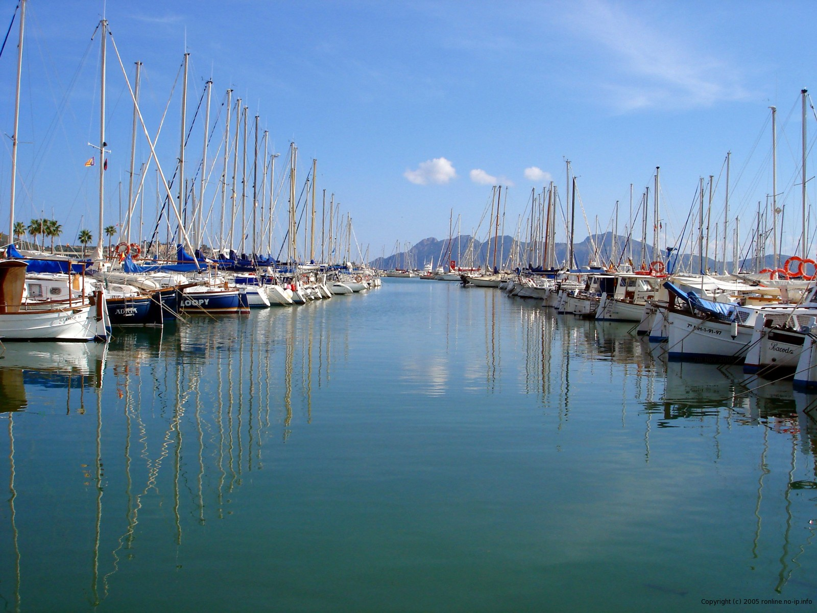 Description: Porto Pollensa, Majorca Source: Self-made Photographer: Ryan Lothian / ryanl